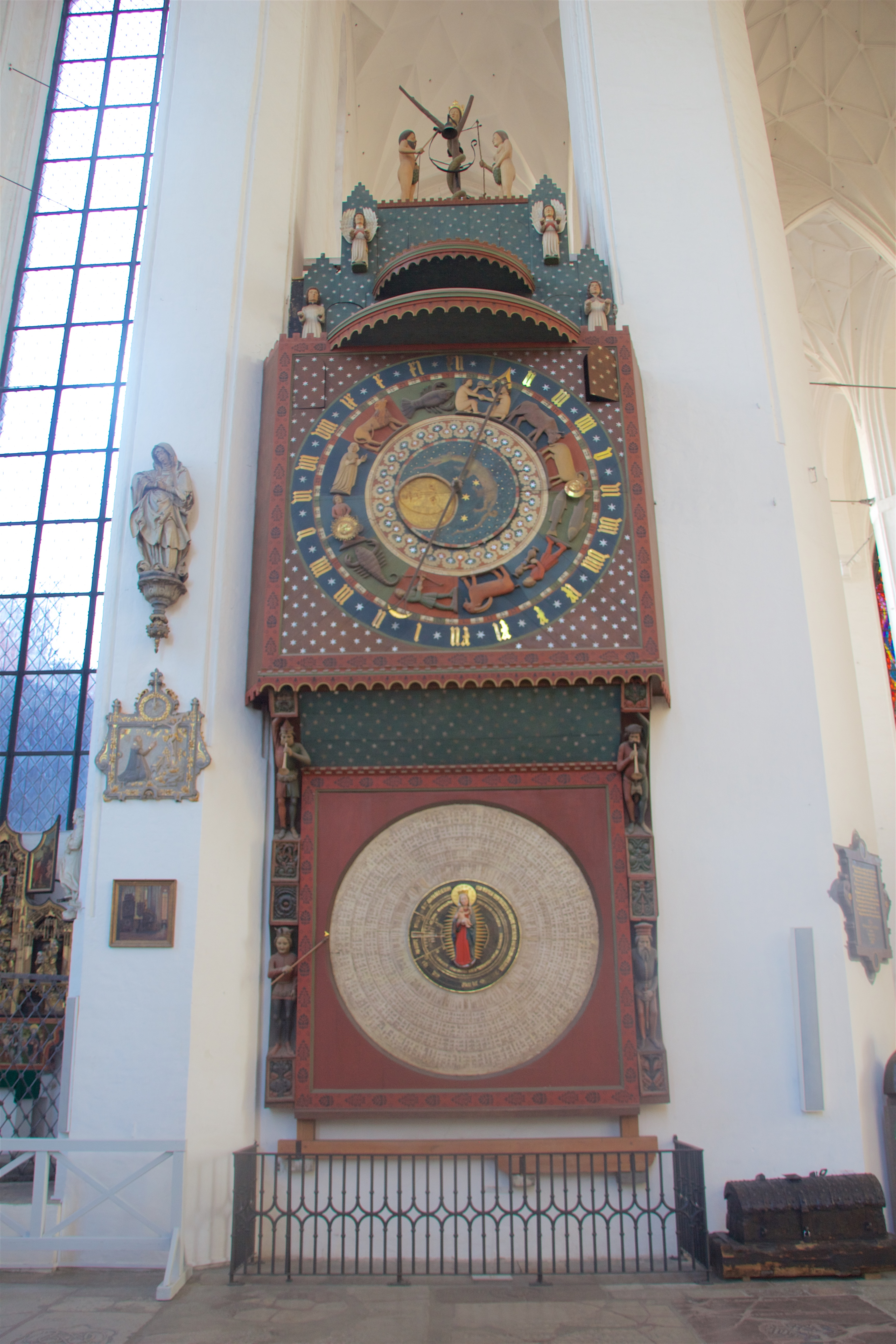 St. Mary's Church, Gdańsk, Poland.